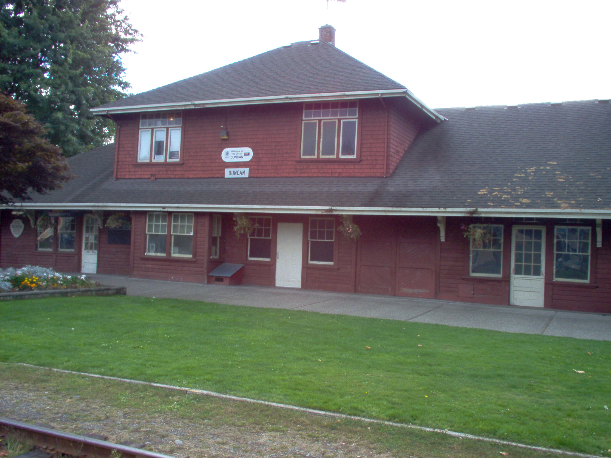 I (Sandtrooper) took this picture on 2006/09/18 with an HP PhotoSmart 435 camera. The E&N Railway stop for Duncan, British Columbia. Still standing after about 90 years. The other side has the Cowichan museum.